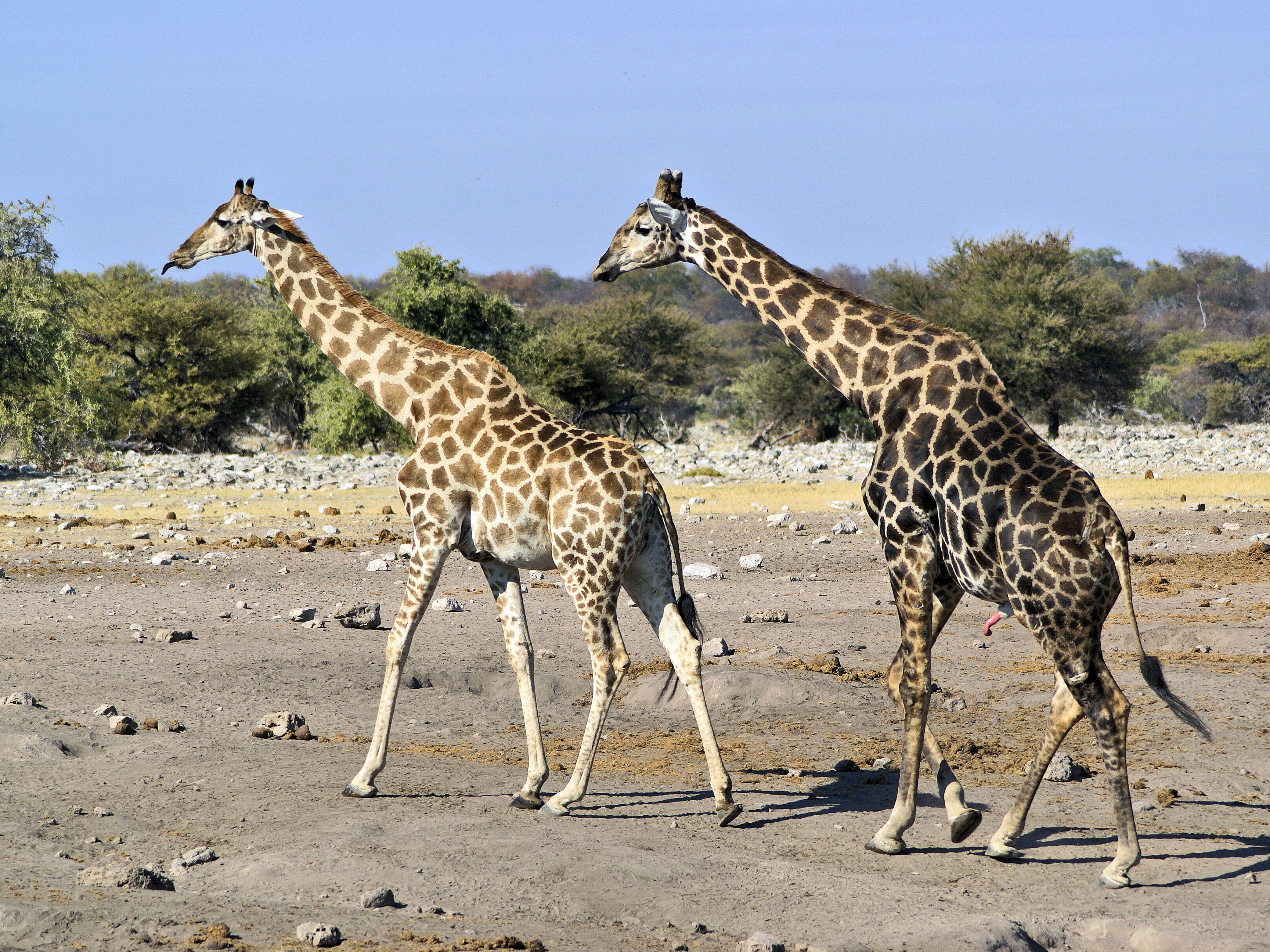 Courting Southern savannah giraffes at Chudop waterhole, Etosha, Namibia